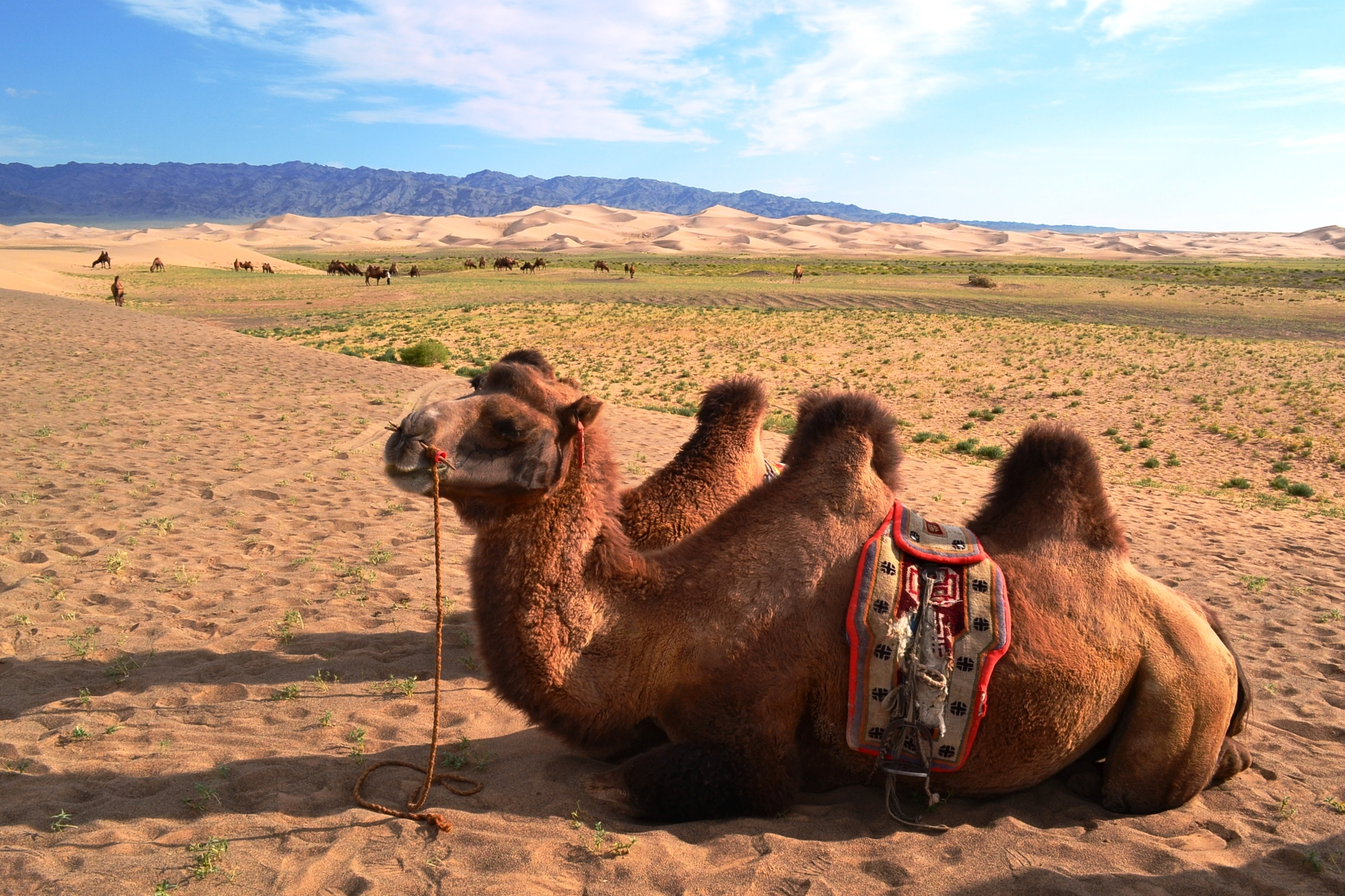 2 humped Camel of the nomadic family in Gobi desert